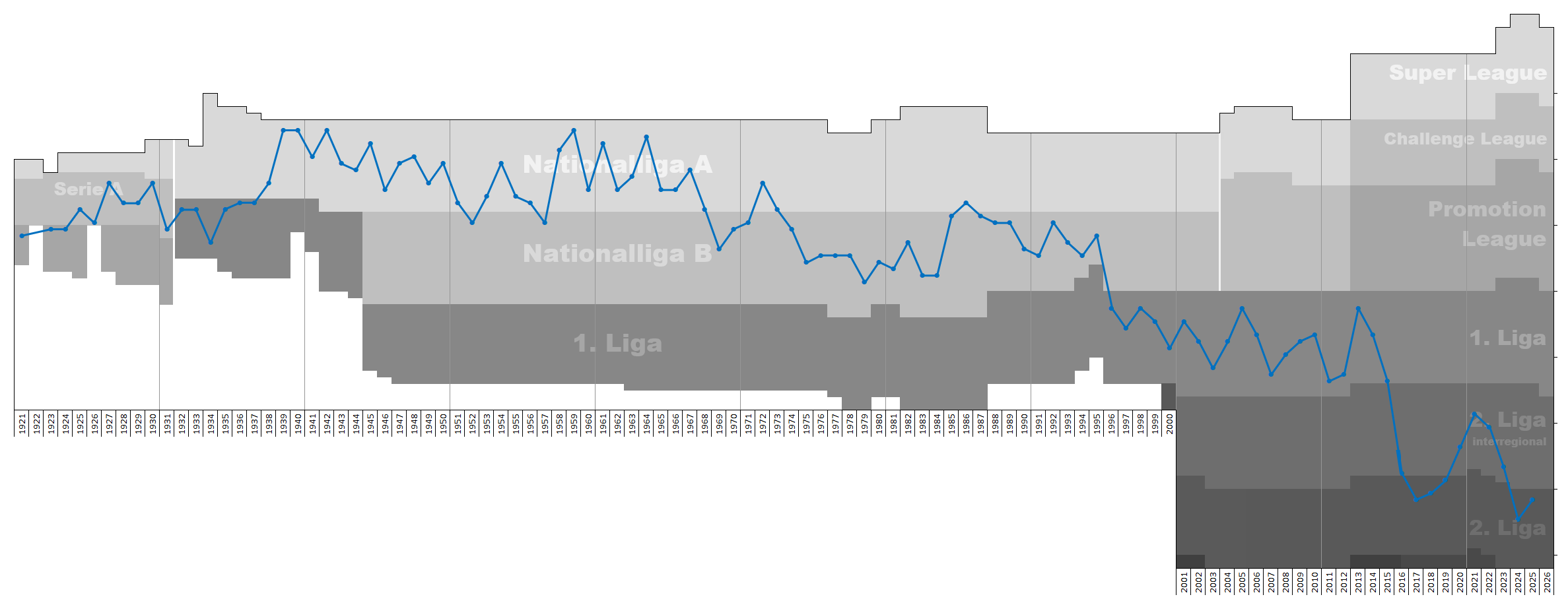 Chart of end-season table positions for FC Grenchen in the Swiss football league system. Data source: RSSSF, , al-la.ch